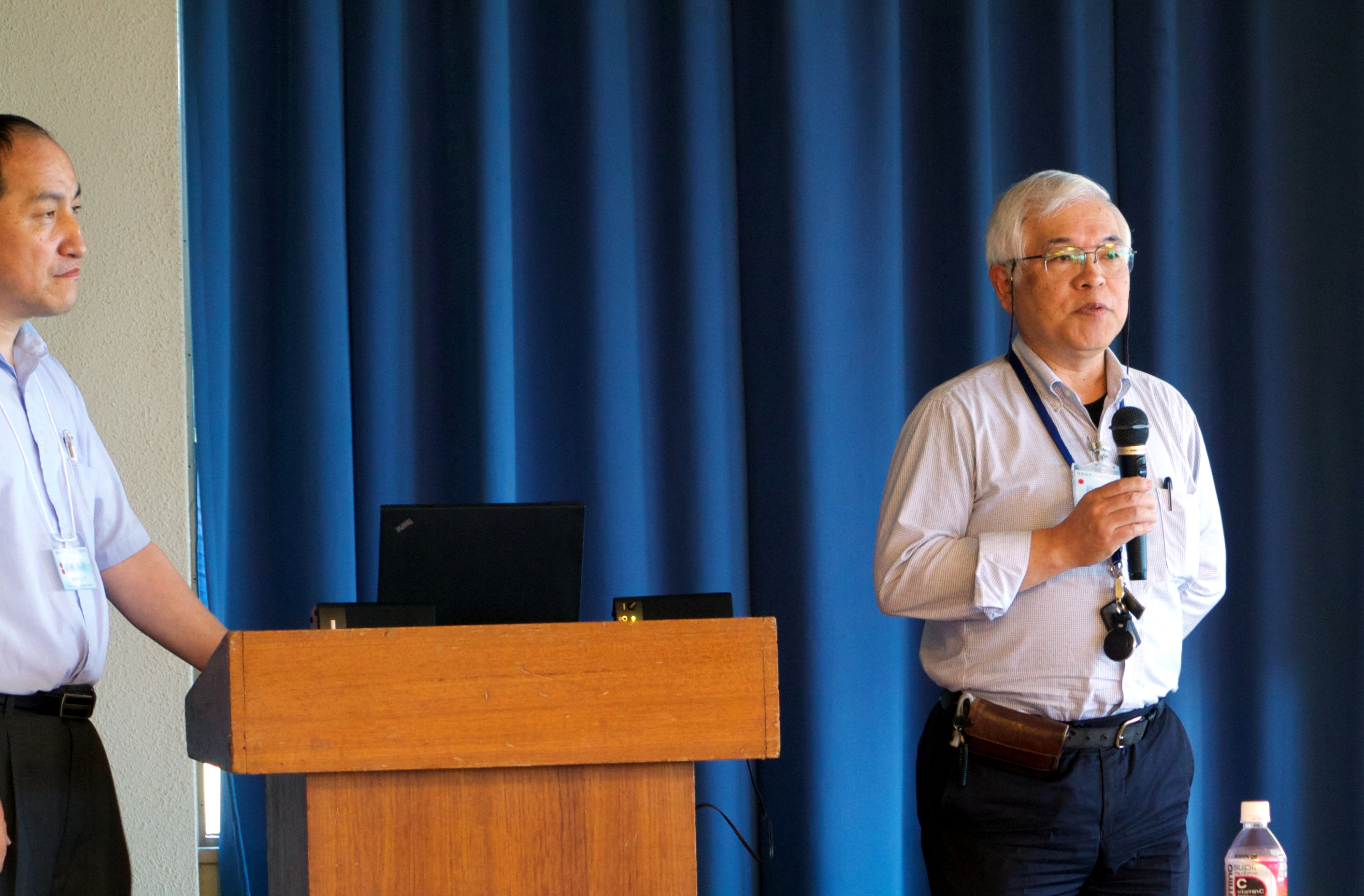 Naoyoshi Suzuki, Professor of the School of Management and Information, University of Shizuoka, and Hiroaki Yuze, Associate Professor of the School of Management and Information, University of Shizuoka, attended the Summer Symposium in Shizuoka 2012 at the Mihoen Hotel in Shizuoka City, Shizuoka Prefecture on August 22, 2012.